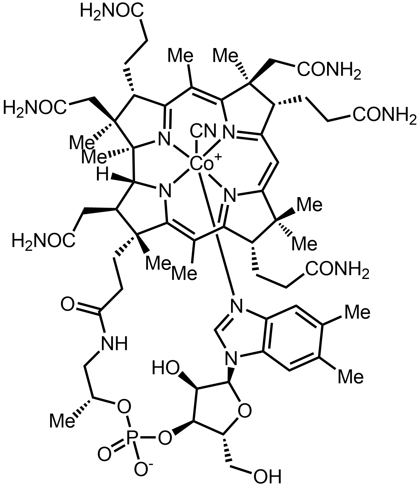 Chemical structure of cyanocobalamin (vitamin B12 with cyanide ligand, produced after treatment with activated charcoal)